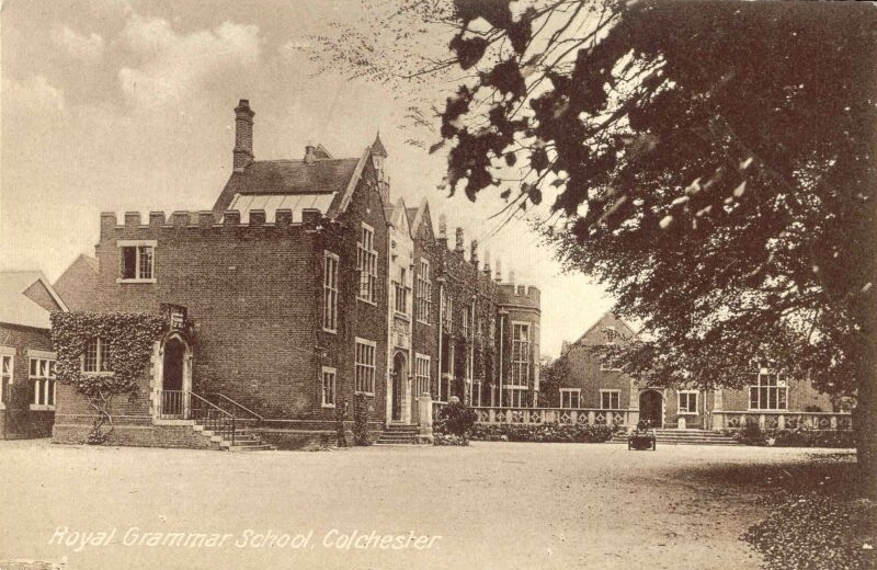 A view of Colchester Royal Grammar School, Colchester, United Kingdom, circa 1920.